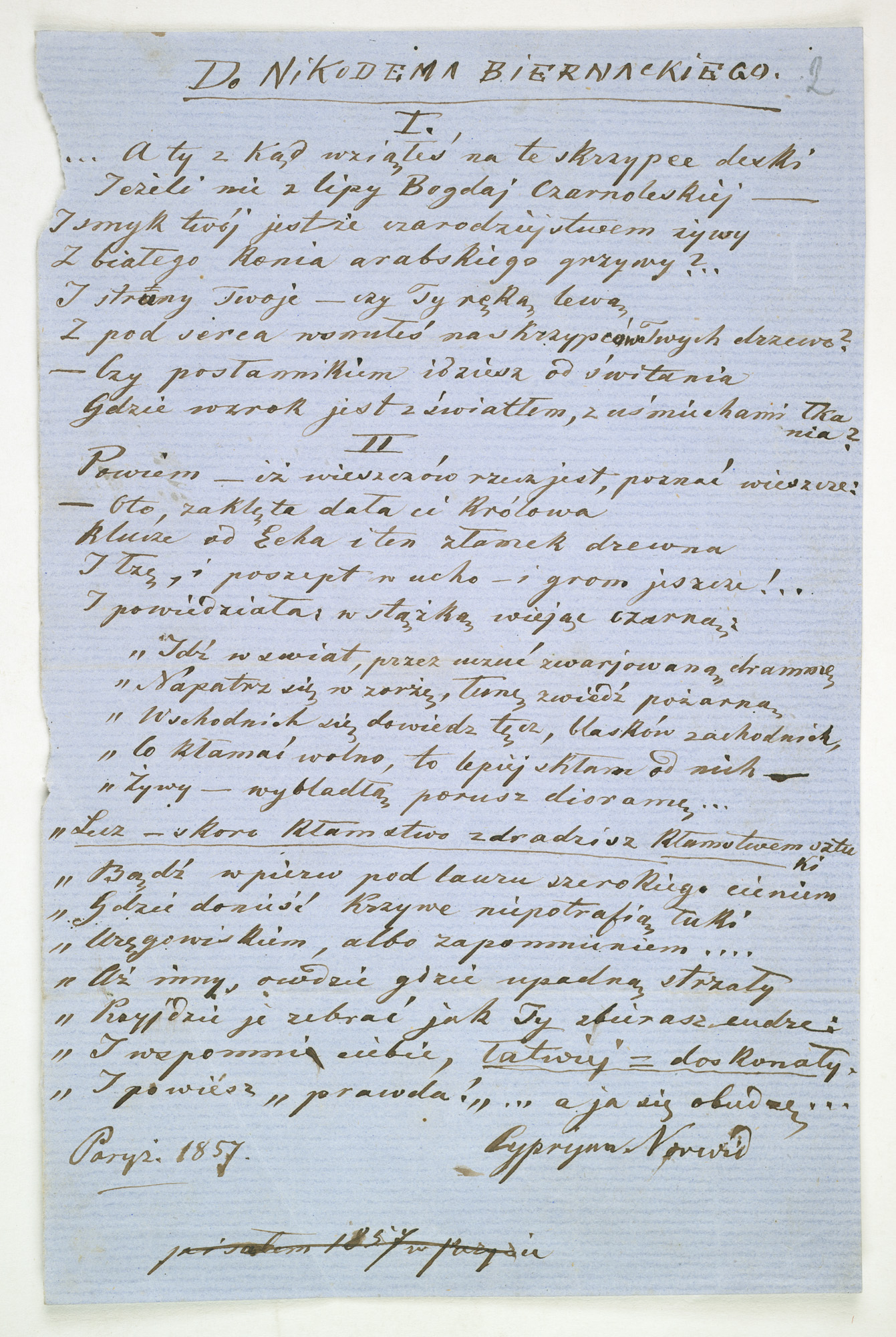 The autograph of the poem entitled Do Nikodema Biernackiego by Cyprian Kamil Norwid